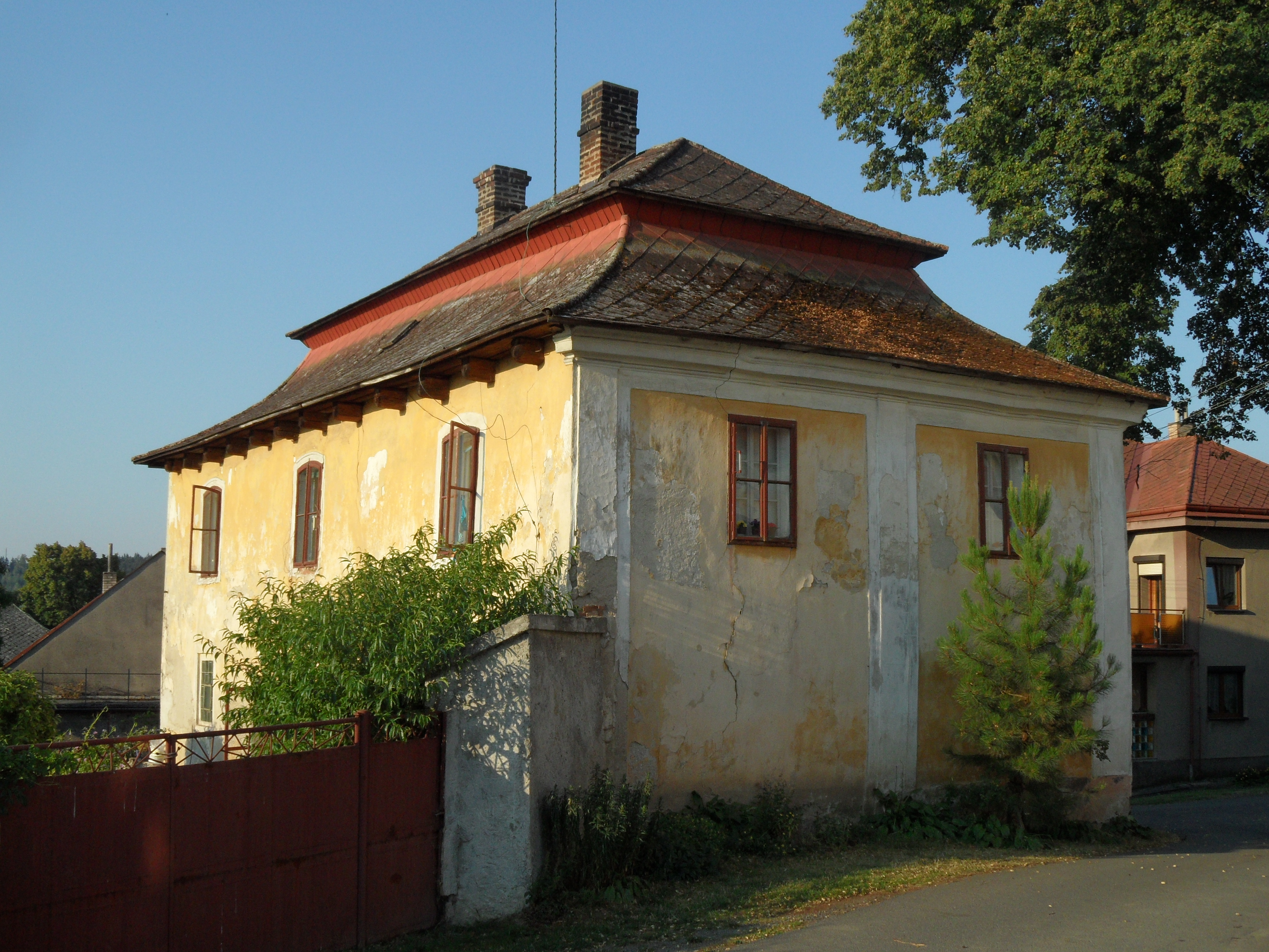 Uhelná Příbram A. Rectory, View from North-East. Havlíčkův Brod District, the Czech Republic.